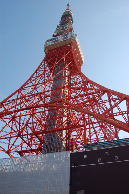 Copyleft - Tokyo Tower